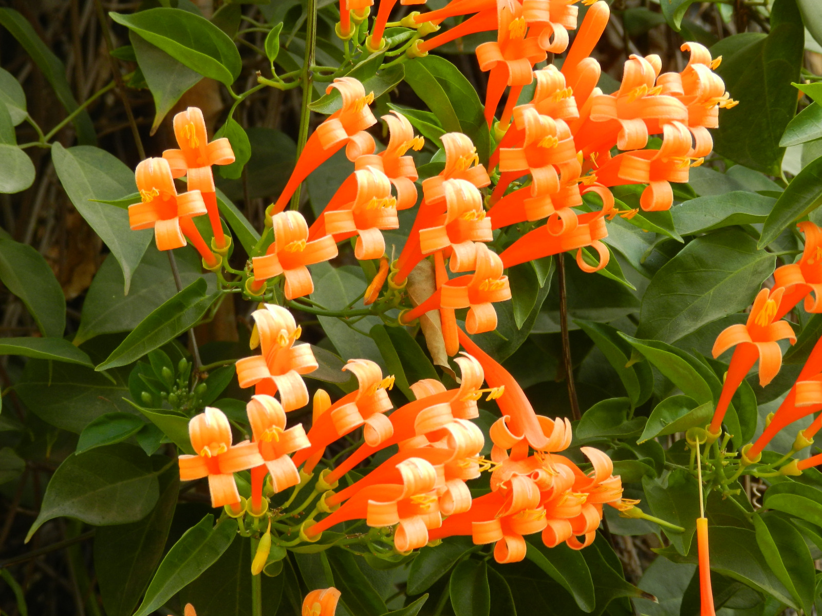 संक्रांतवेलीची फुले